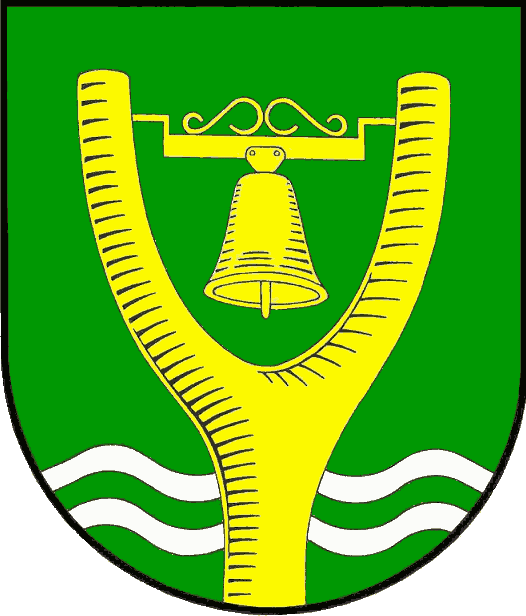 Coat of arms of the municipality Erfde in Schleswig-Holstein, Germany.